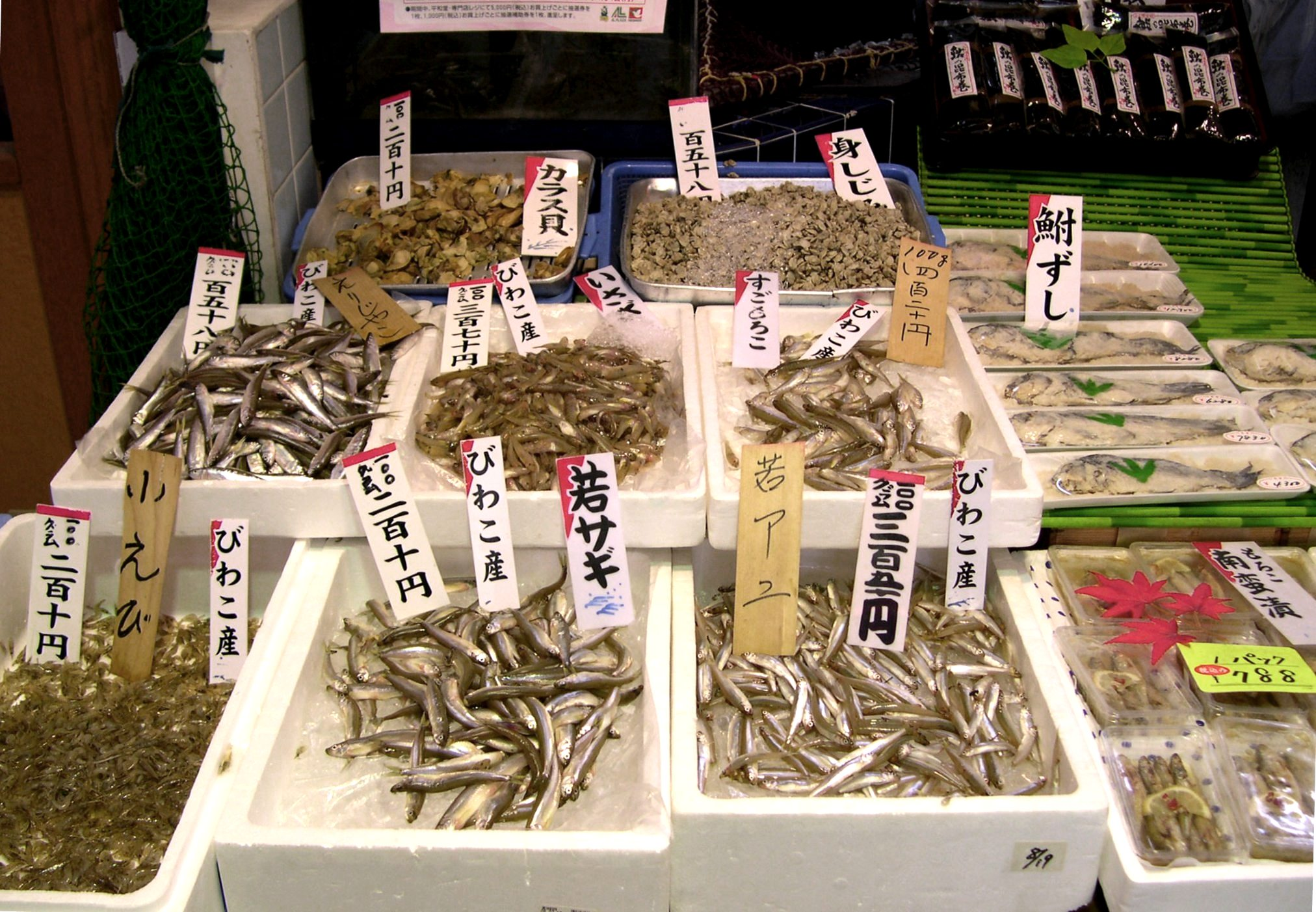 Fishery products from Lake Biwa for sale at a fish store in Ōtsu, Shiga Prefecture, Japan.